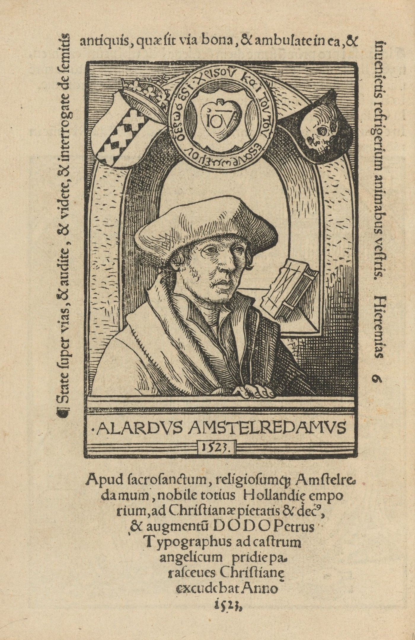 Woodcut of Alardus of Amsterdam, from Ritus edendi paschalis agni: decem item plagae, sive clades, quibus olim ob Pharaonis impiatatem, misere divexata est AEgyptus... Published by Doen Pietersz, Amsterdam, 1523. Typ 532.23.132, Houghton Library, Harvard University